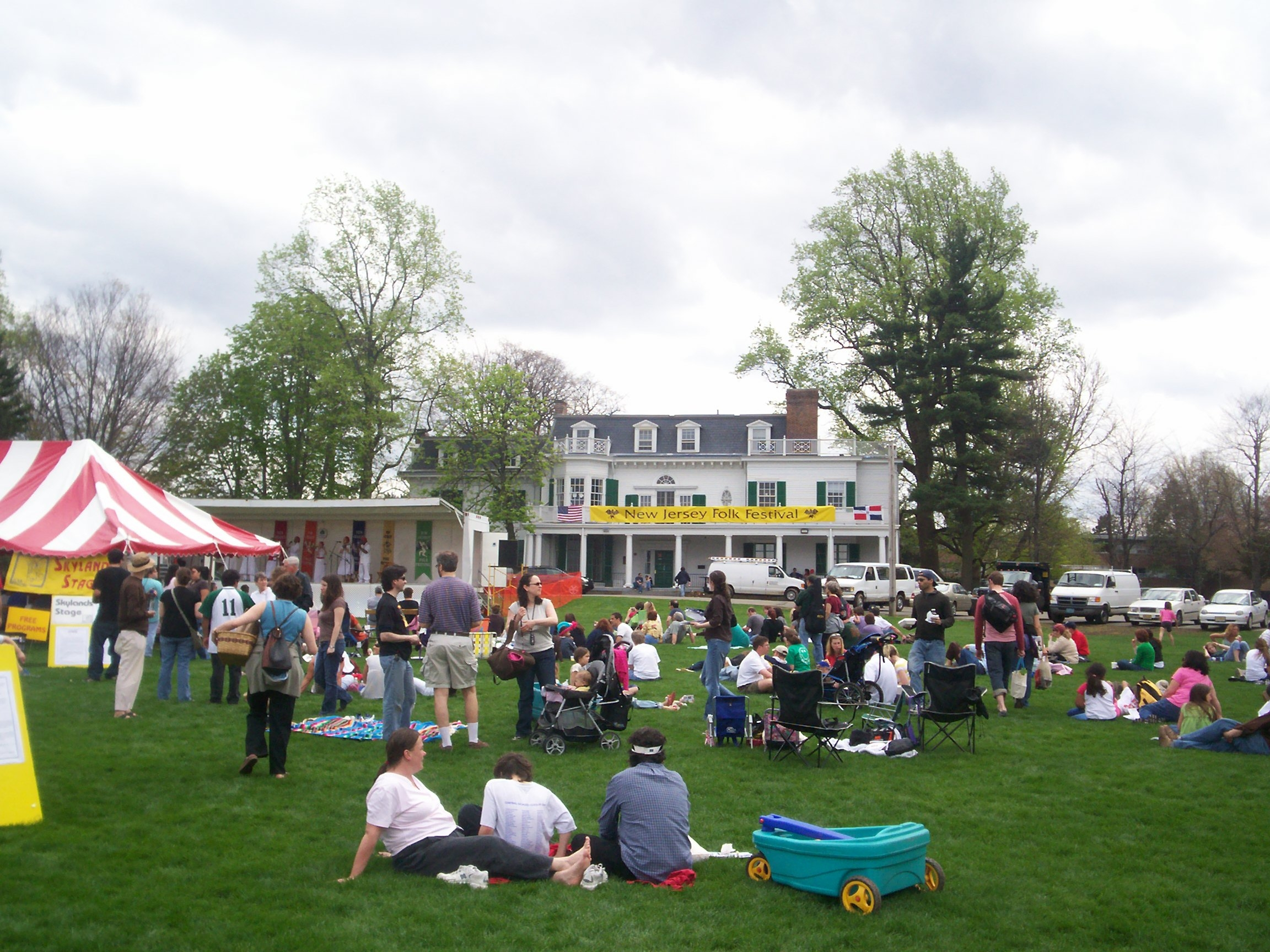 New Jersey Folk Festival on April 28, en:2007 Source: User:Richard Arthur Norton (1958- )